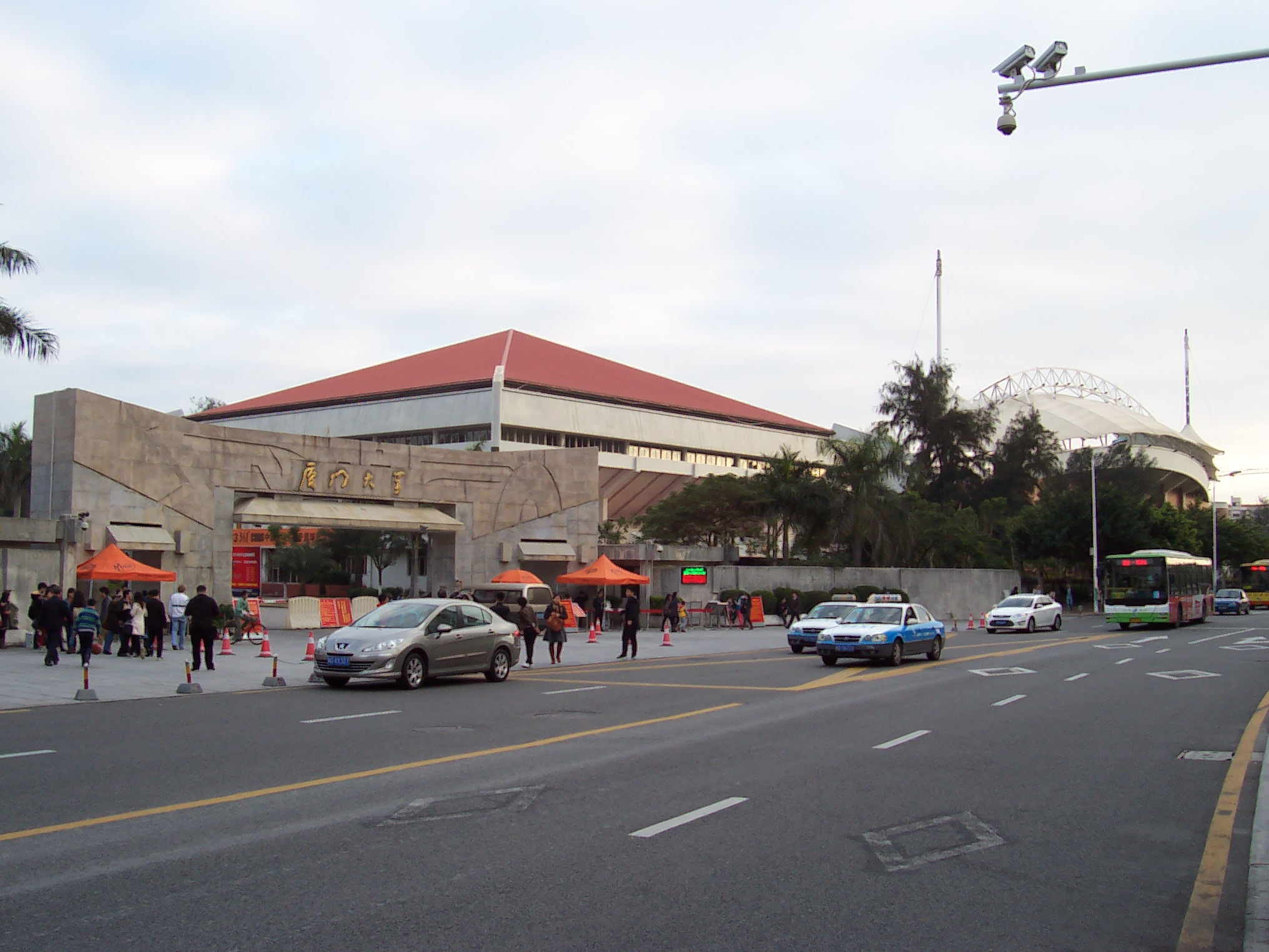 Xia Men University Western Gate